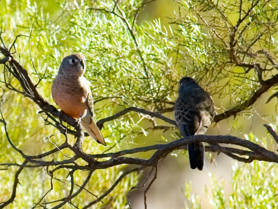 Bourke's Parrot Neopsephotus bourkii. Wild pair at Bowra Station, near Cunamulla, Queensland, Australia